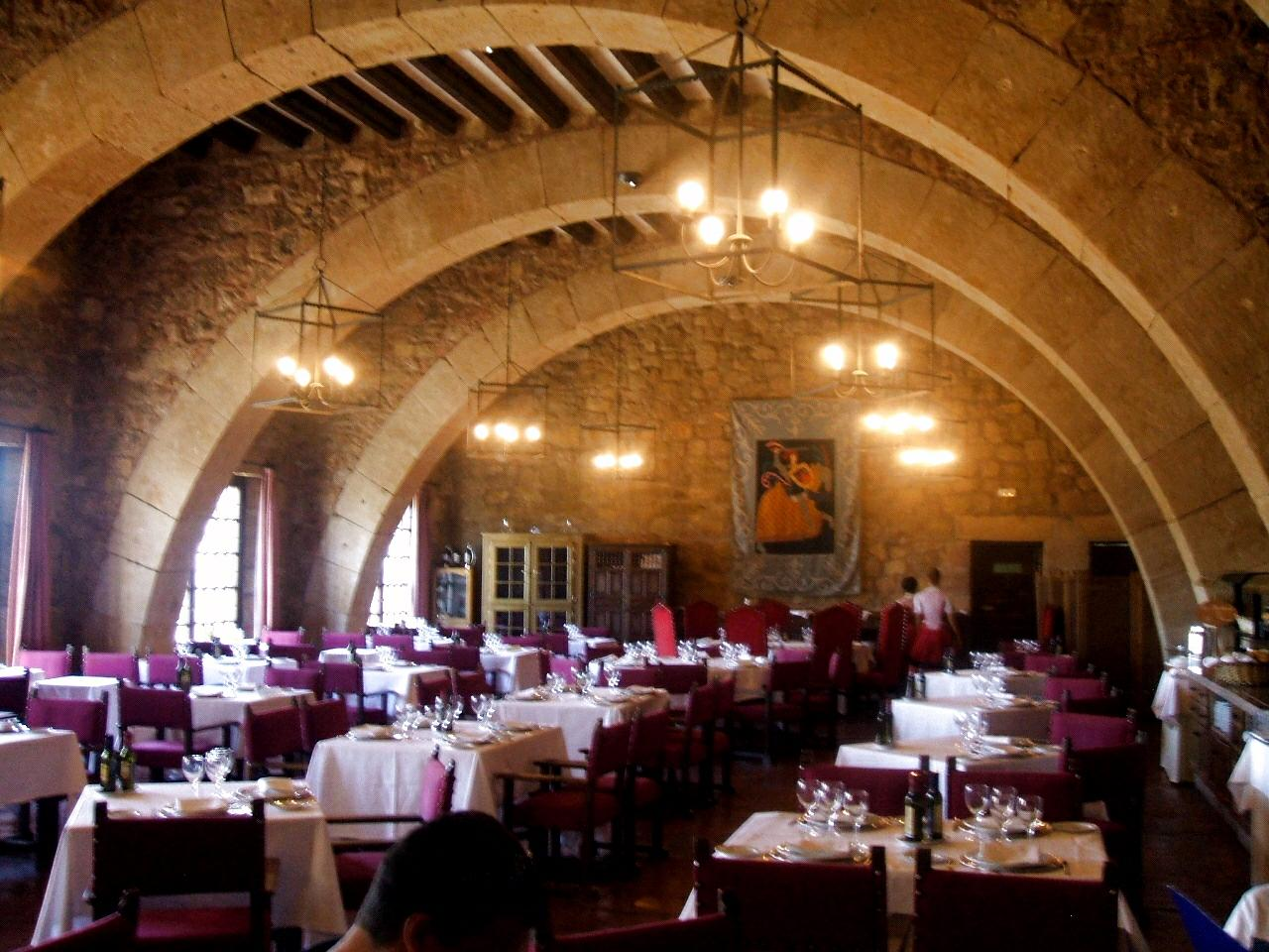 Castillo y Parador Nacional de Sigüenza (Guadalajara, Castilla-La Mancha, España)